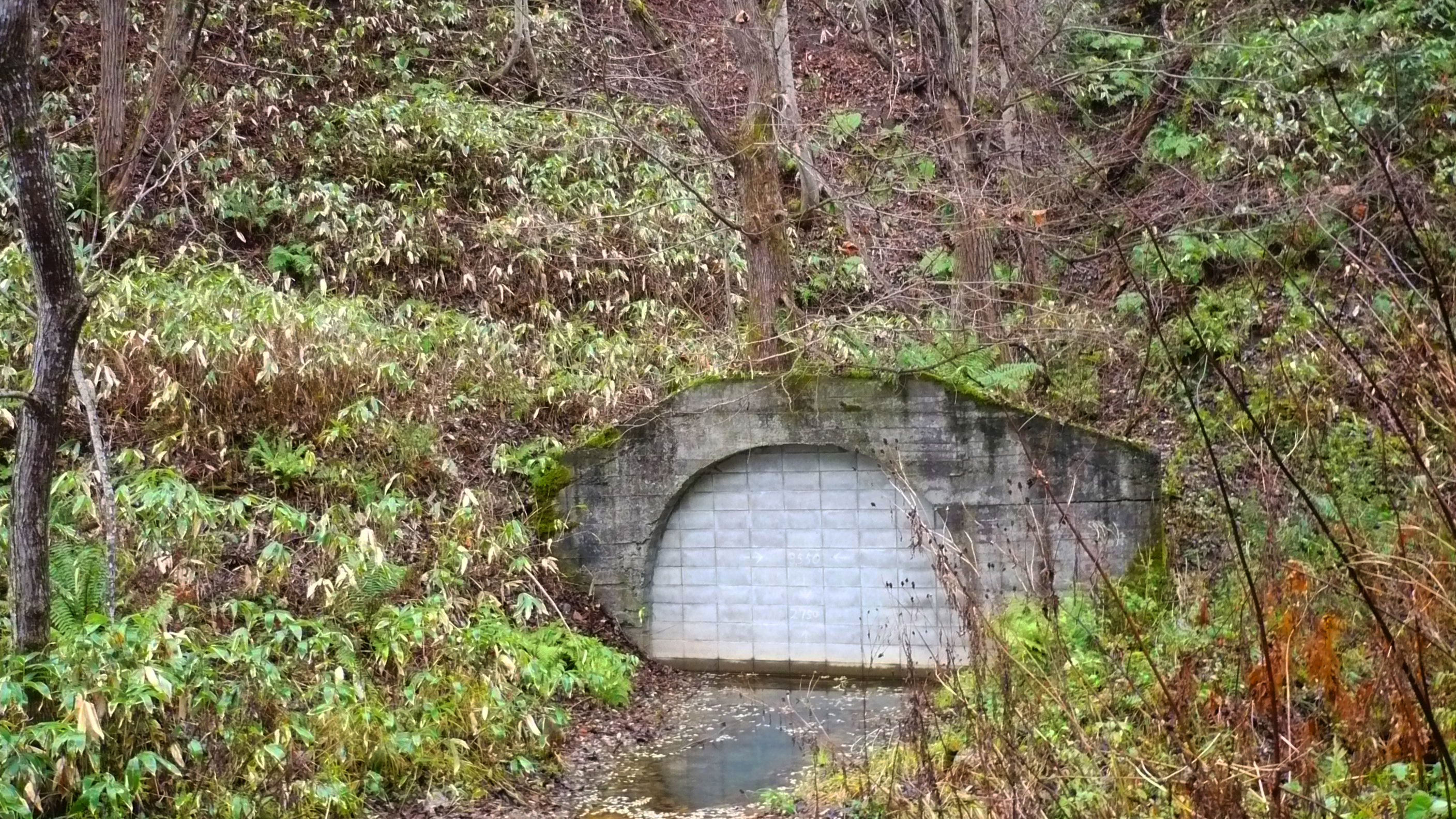 The Daikōdō, the first shaft of the Ishikari coalfield (1879), also known as the Otowa-kō.